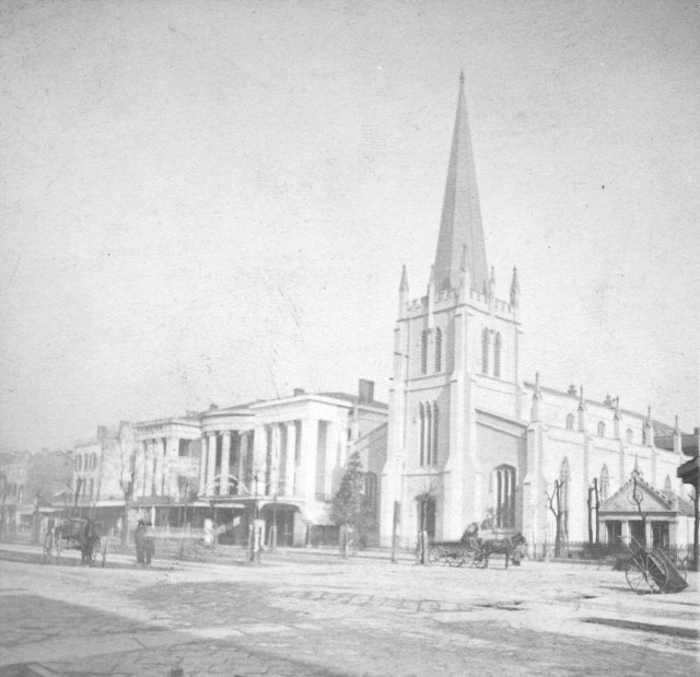 New Orleans: 19th century photograph of old Christ's Church, at the downtown lake corner of Canal Street at Dauphine (later the site of the Maison Blanche Building). Built 1847; vacated 1884, demolished 1885.